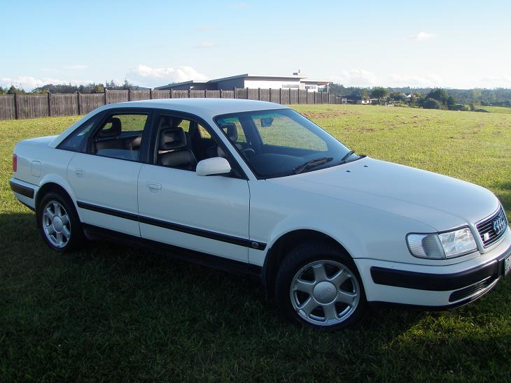 1994 Audi S4 automatic